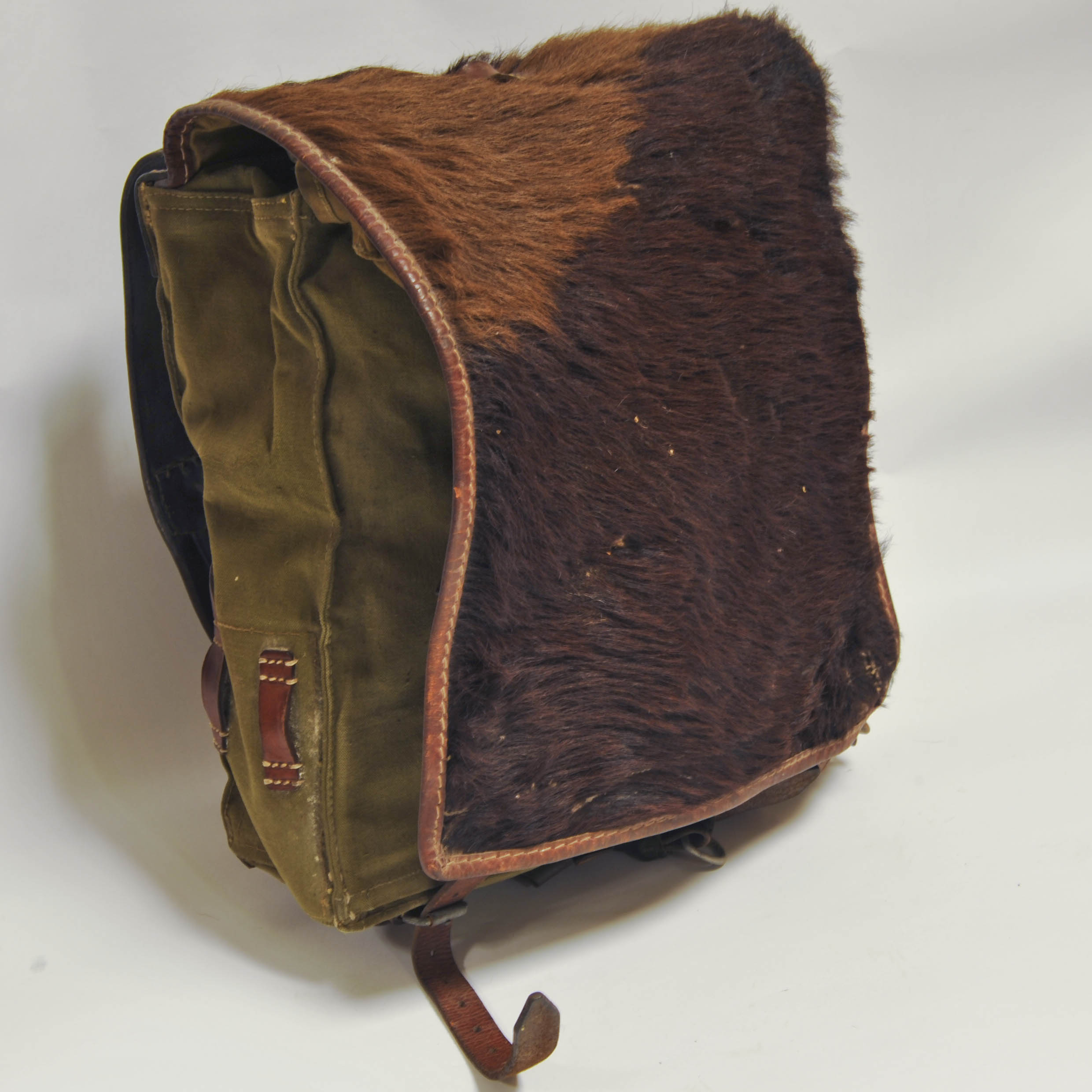 Backpack M 34 from 1940, used by German soldiers during World War II and named "Affe".